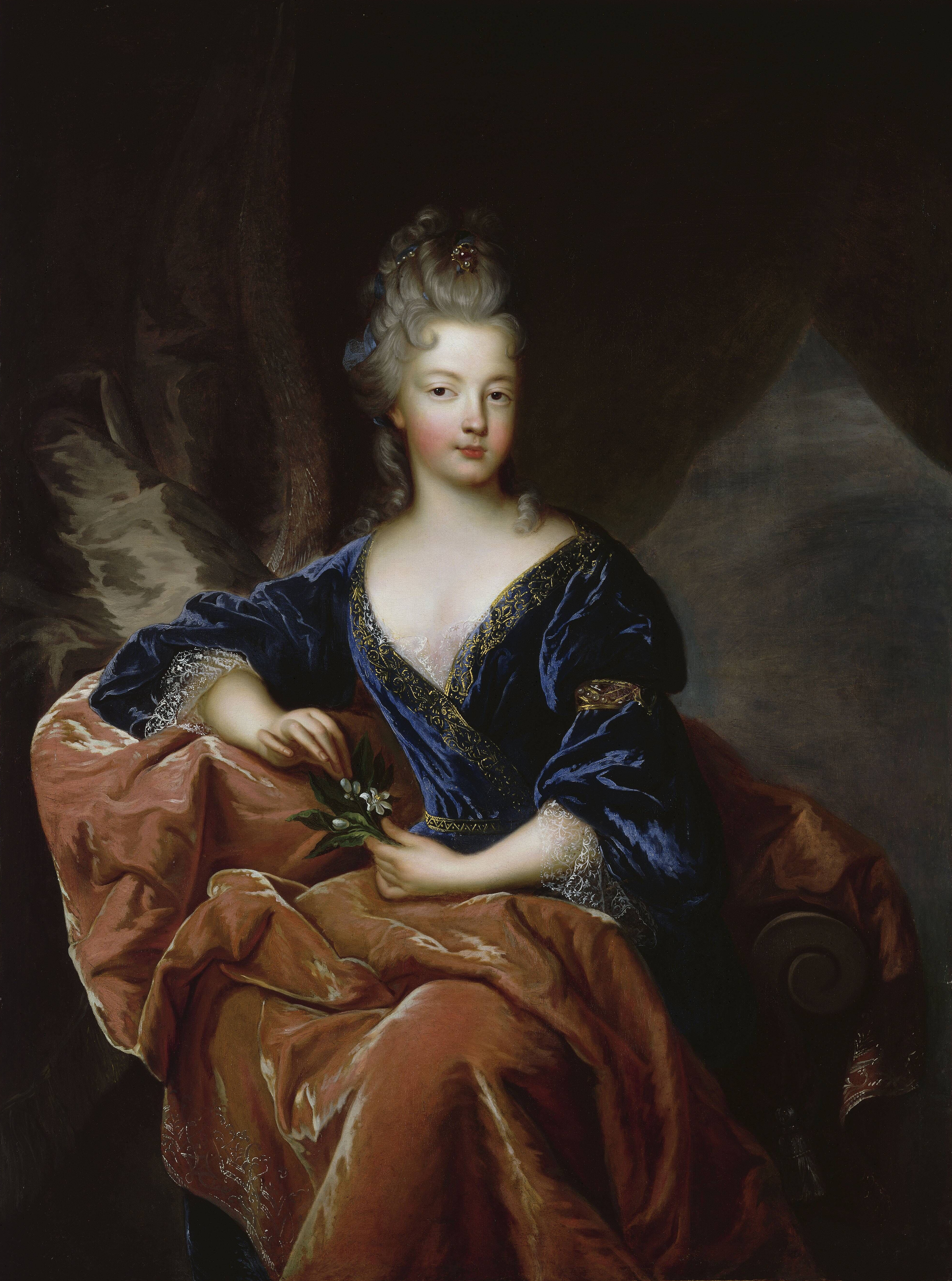 Portrait of Françoise-Marie de Bourbon, "Mademoiselle de Blois" duchesse d'Orléans (1677-1749)